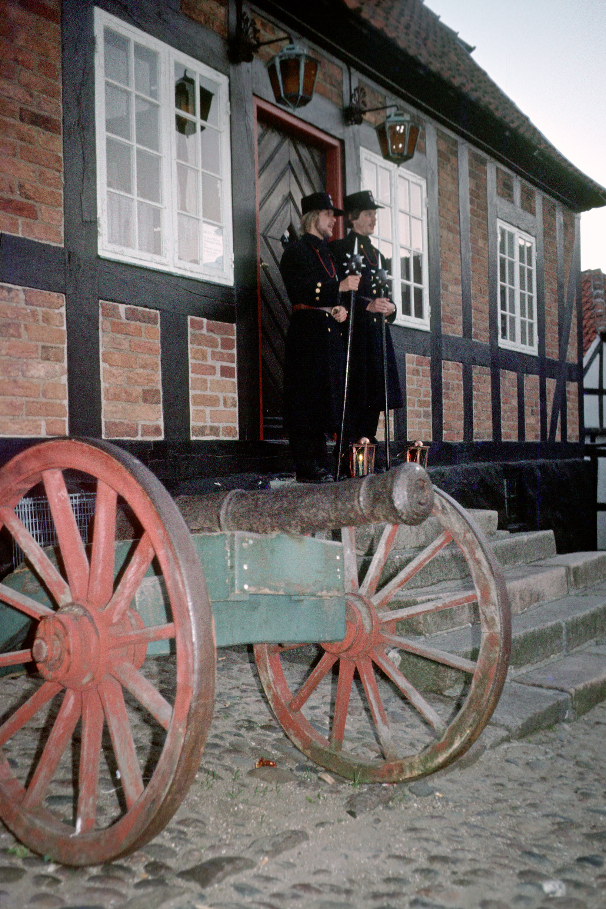 Night watchmen in front of the old town hall of EbeltoftDansk: Natvӕgtere for den gamle rådhus i Ebeltoft